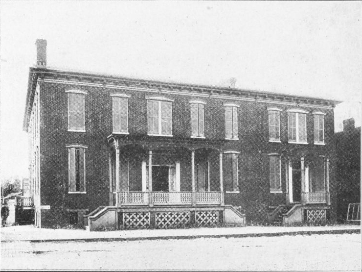 The old jail at Charlestown, Jefferson County, Virginia, where John Brown was imprisoned; The jailer lives in the front part.